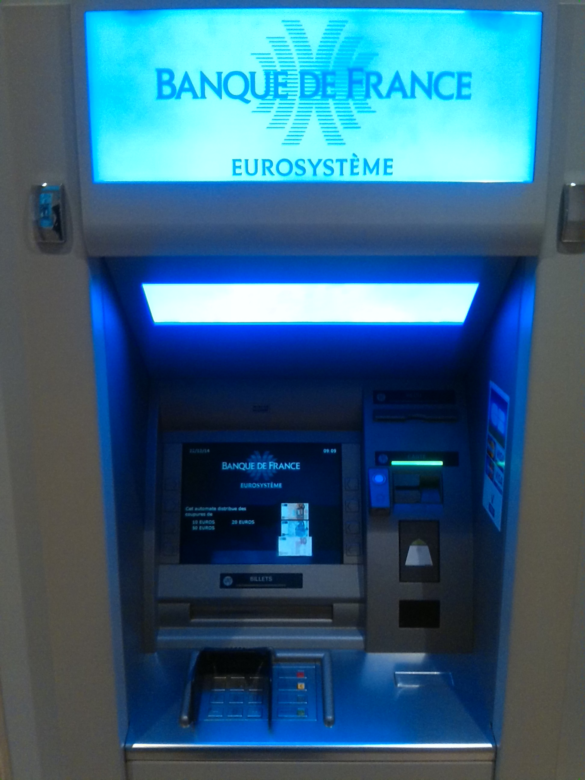 Automated Teller Machine of the Banque de France, Rue Radziwill, Paris, France